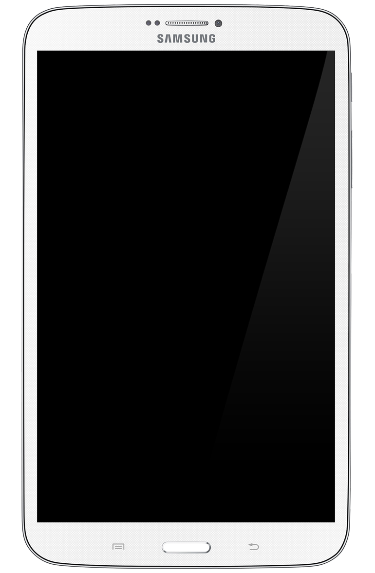 Samsung Galaxy Tab 3 8.0 render